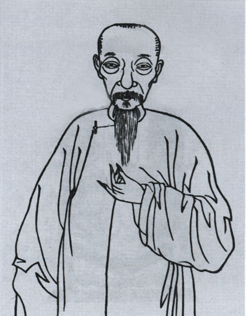 Hu Chenghong, official of the Qing Dynasty.